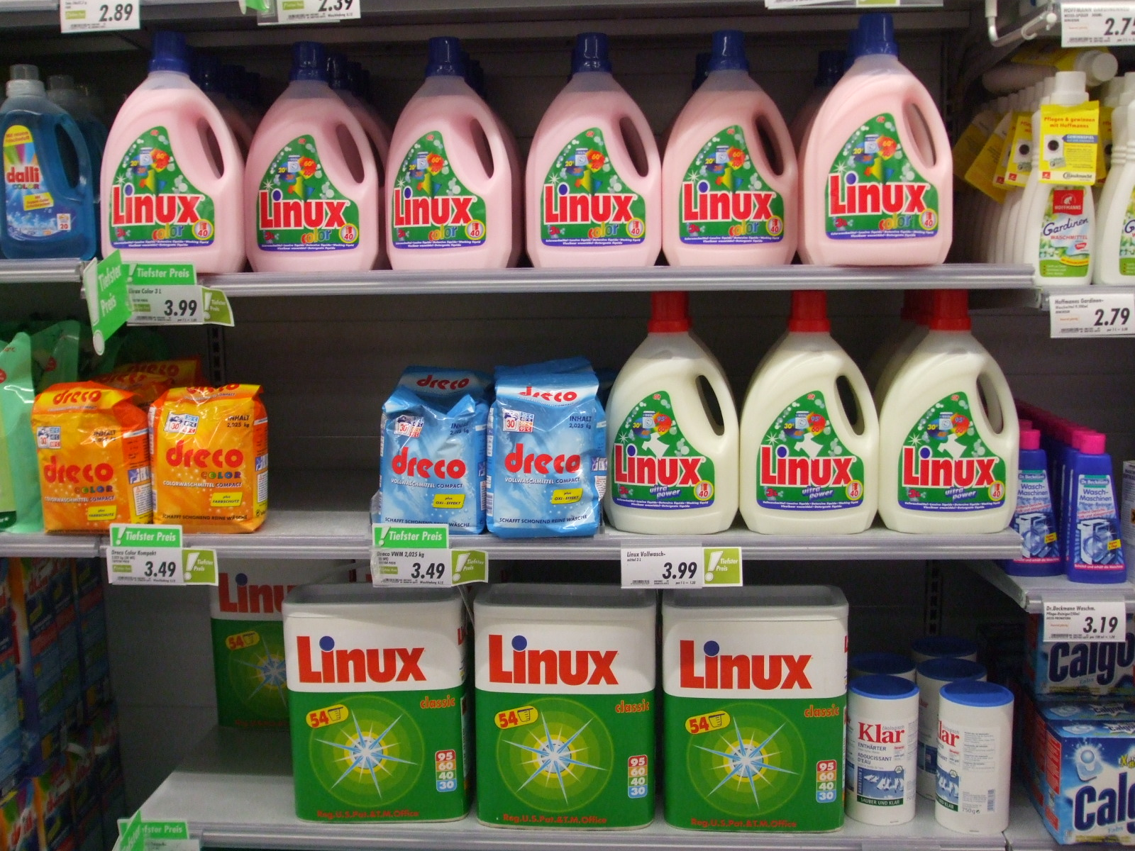 Various Linux laundry detergents, to the right of Dreco products